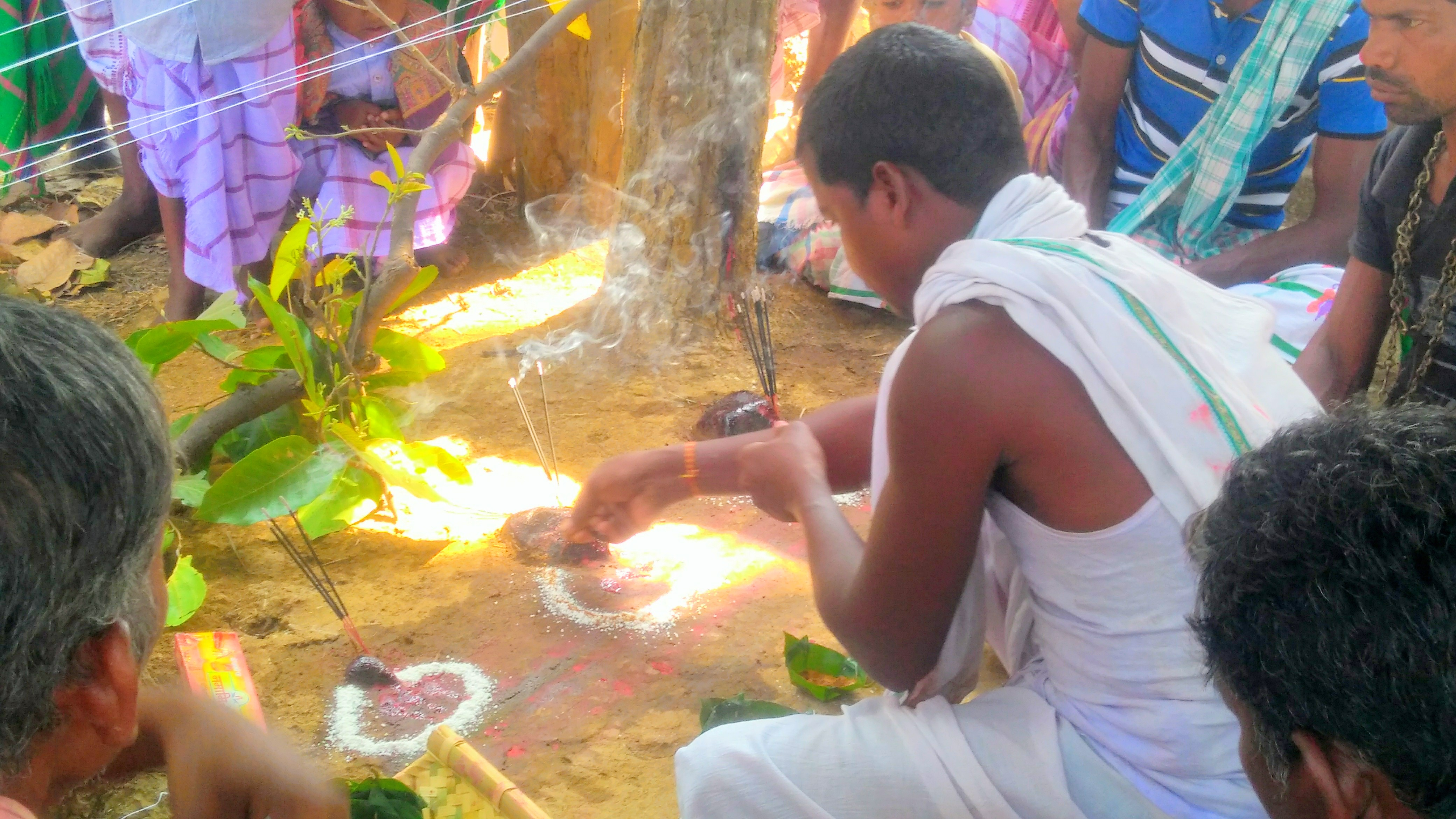 Santhal priest worshiping. Pic was taken from gobindpur villages of mayurbhanj ODISHA. During sarhul festival.